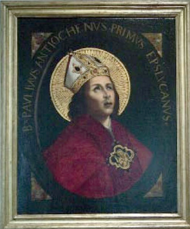 Gaspare Mannucci - San Paolino Vescovo